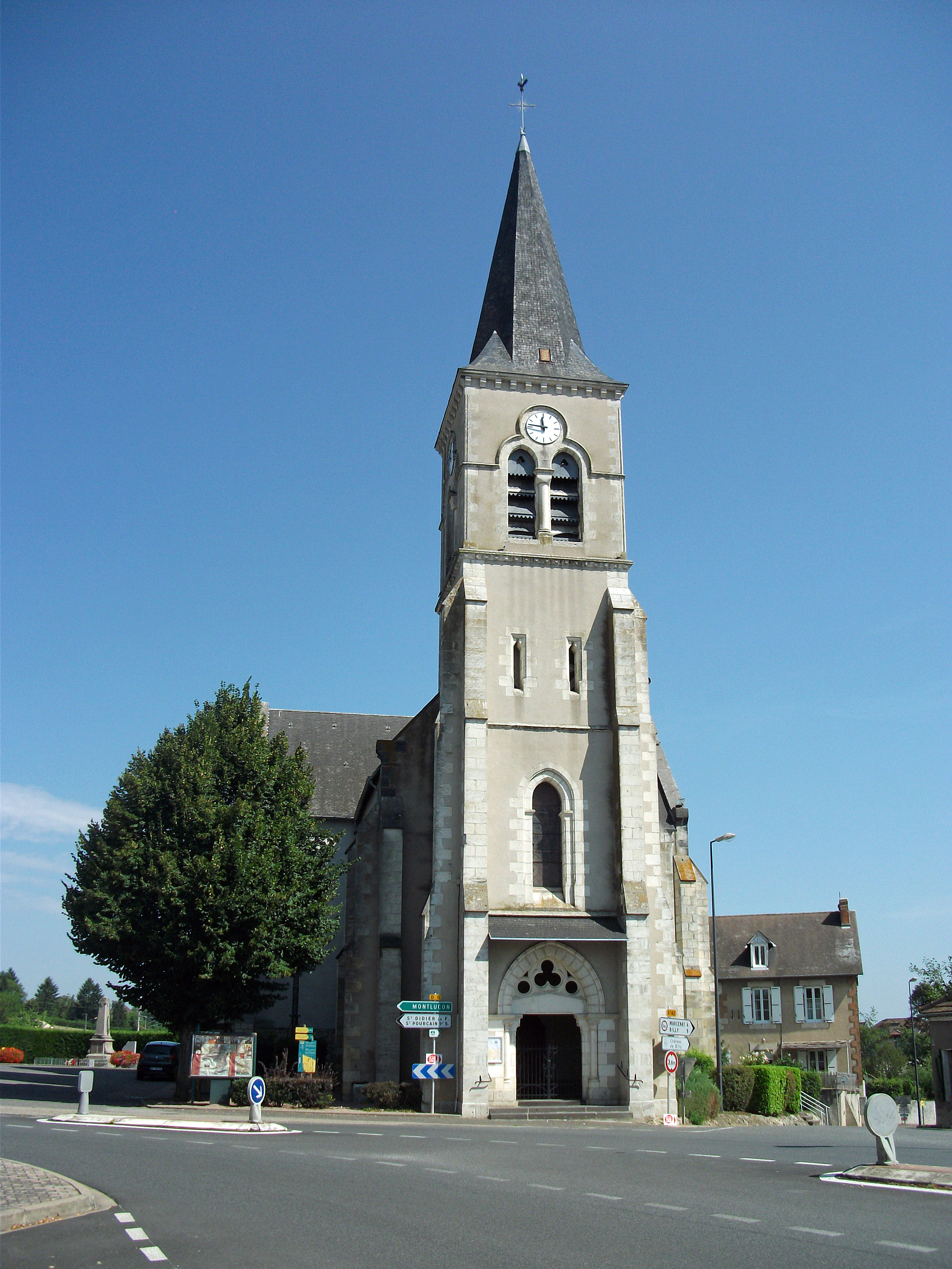 Church of Saint-Rémy-en-Rollat [8618]